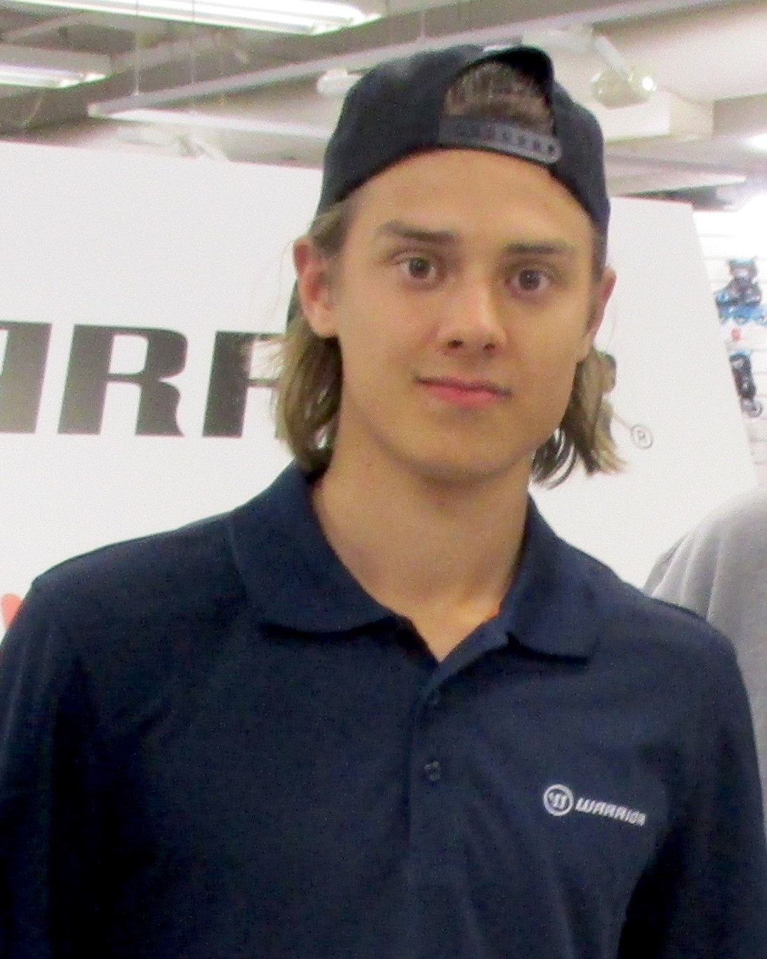 Carolina Hurricanes’ Sebastian Aho at Warrior Sports Hockey Day at Intersport Puhos in Helsinki, Finland on 29th of August 2016.